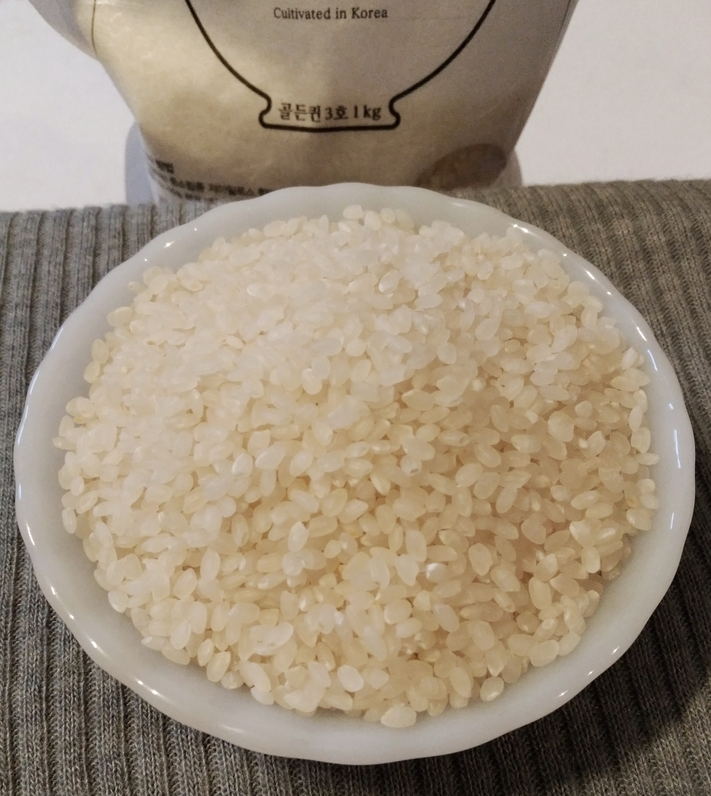 Golden Queen No. 3